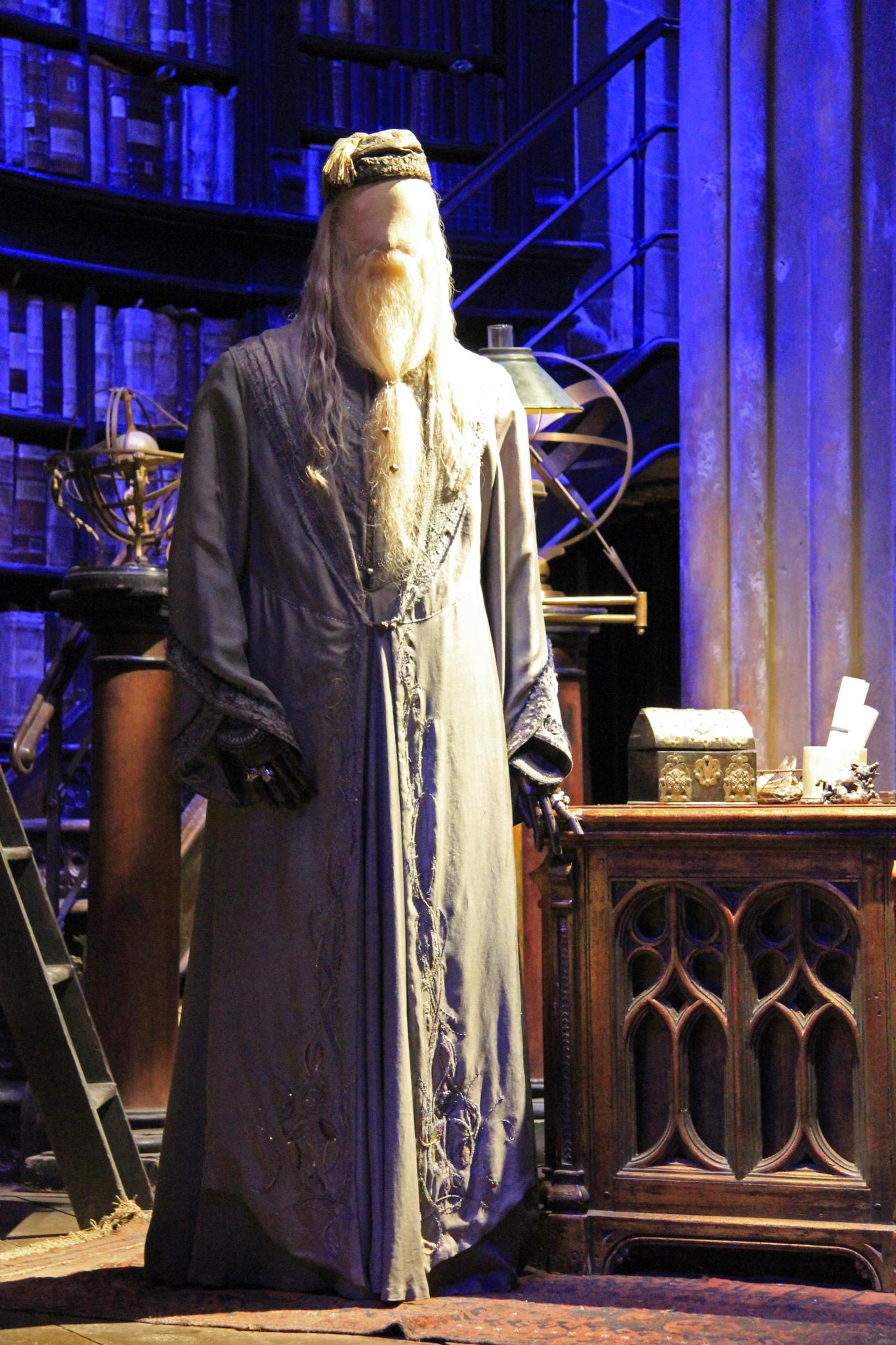 Model of Albus Dumbledore (Harry Potter) in Leavesden Green, Watford, Inghilterra, Regno Unito